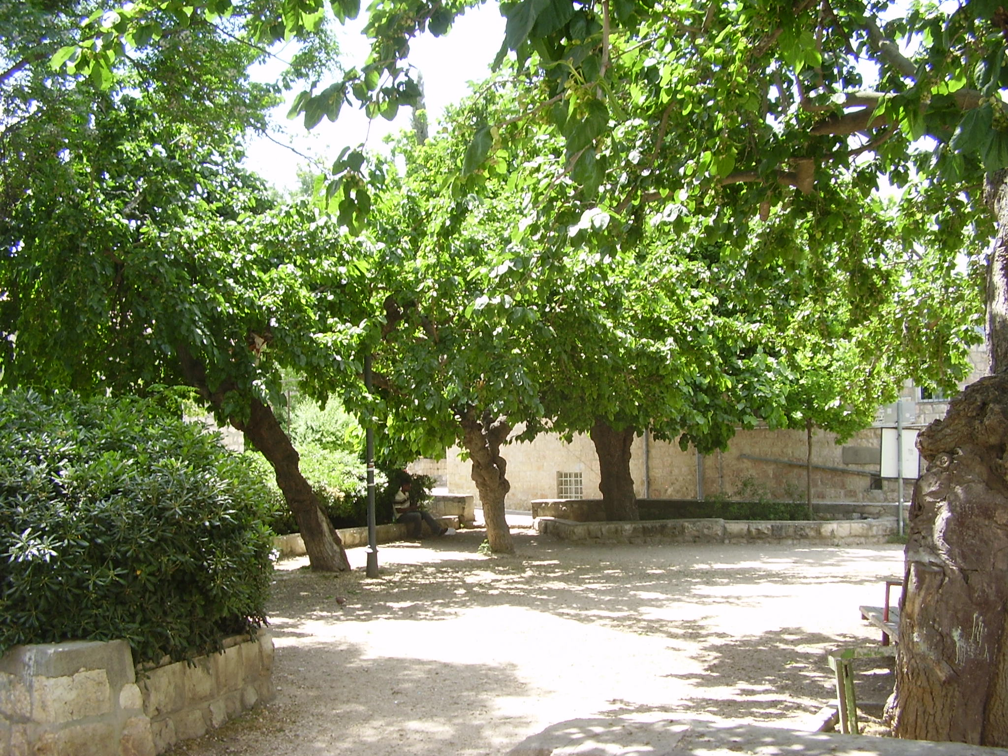 Ohel Moshe in Jerusalem